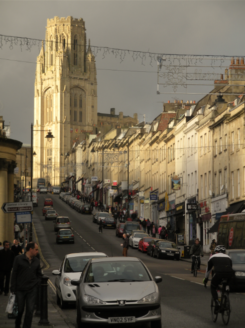 This is a view of Park Street in Bristol, with a dramatic view of the Willis Memorial Building at the top.